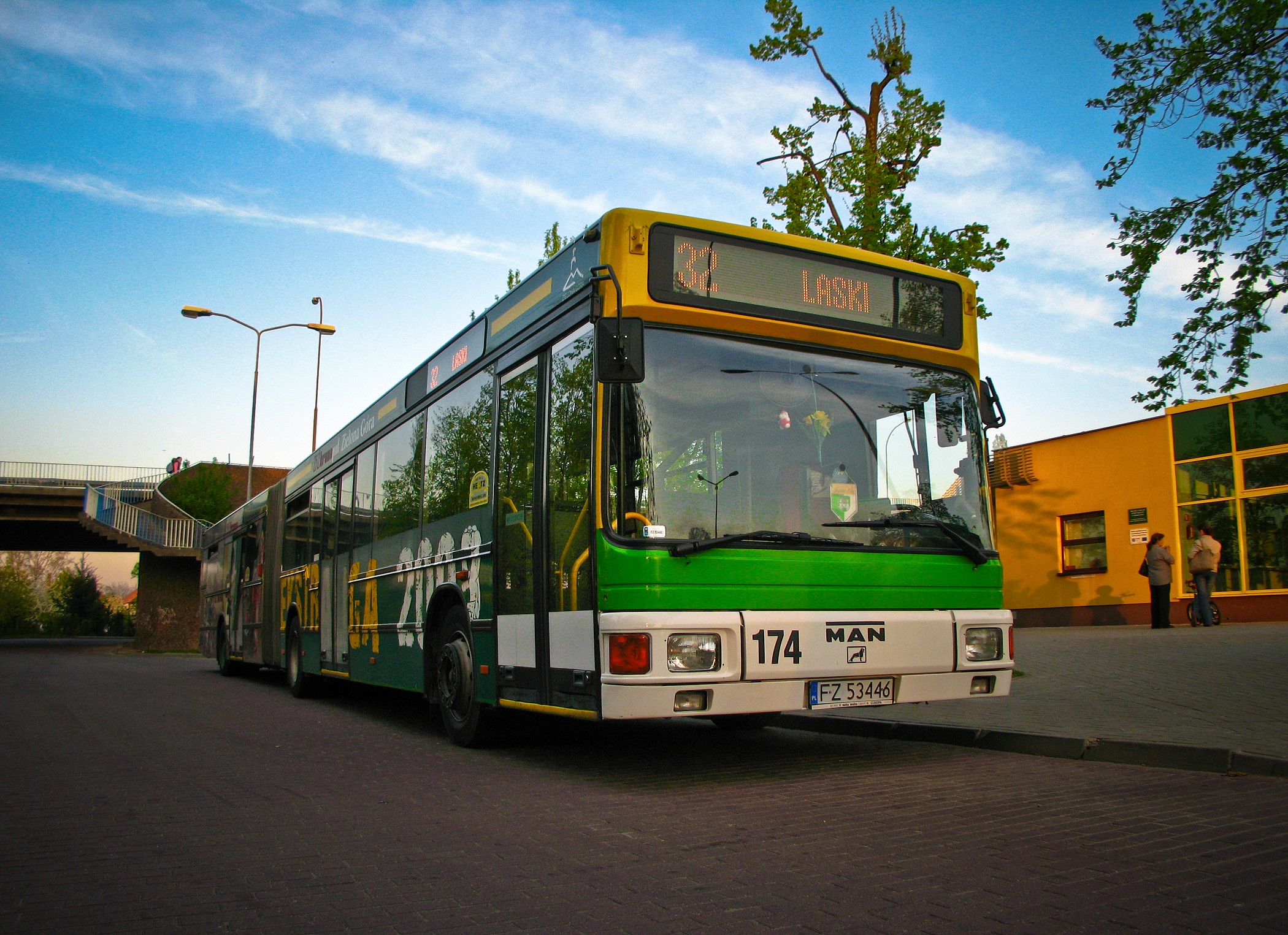 MAN NG272 city bus (#174) in Zielona Góra, Poland. Year built 1994, MZK Zielona Góra operator.